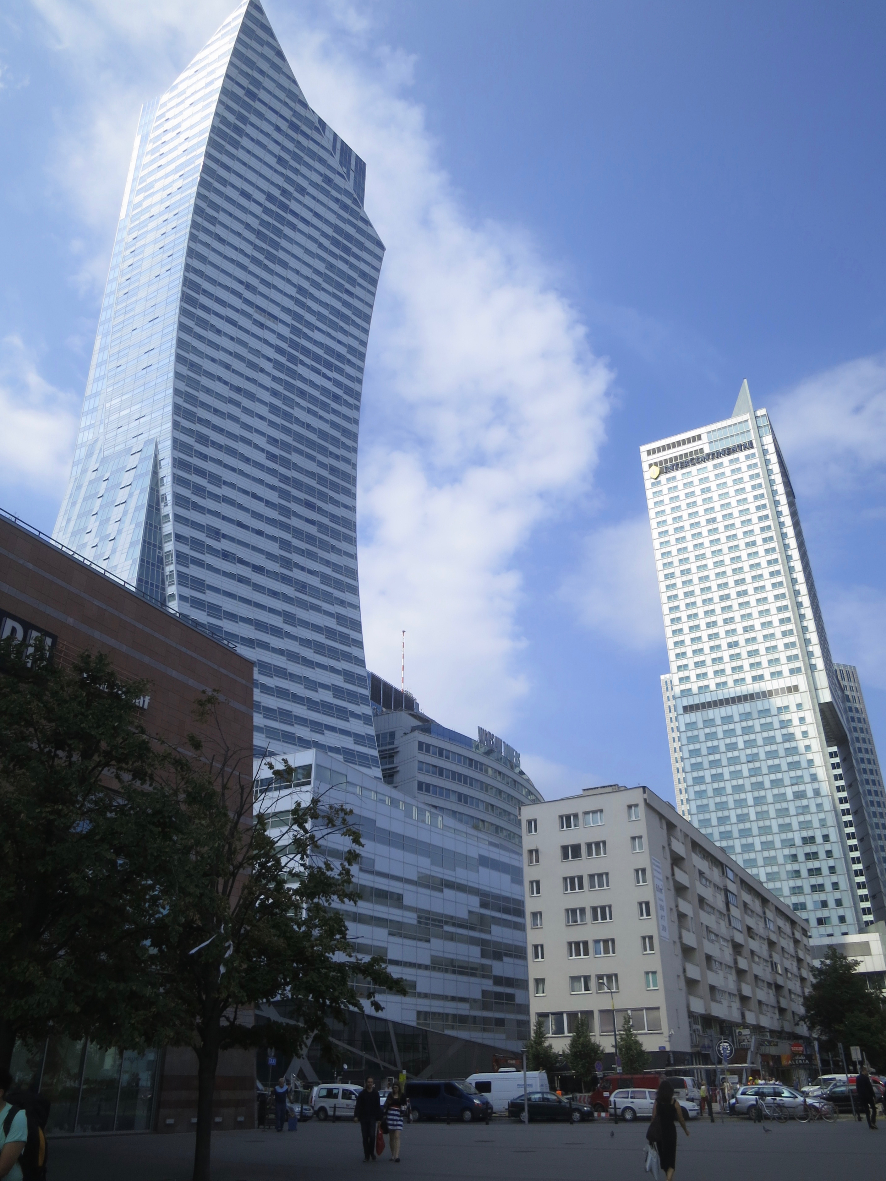 Warsaw High Rise